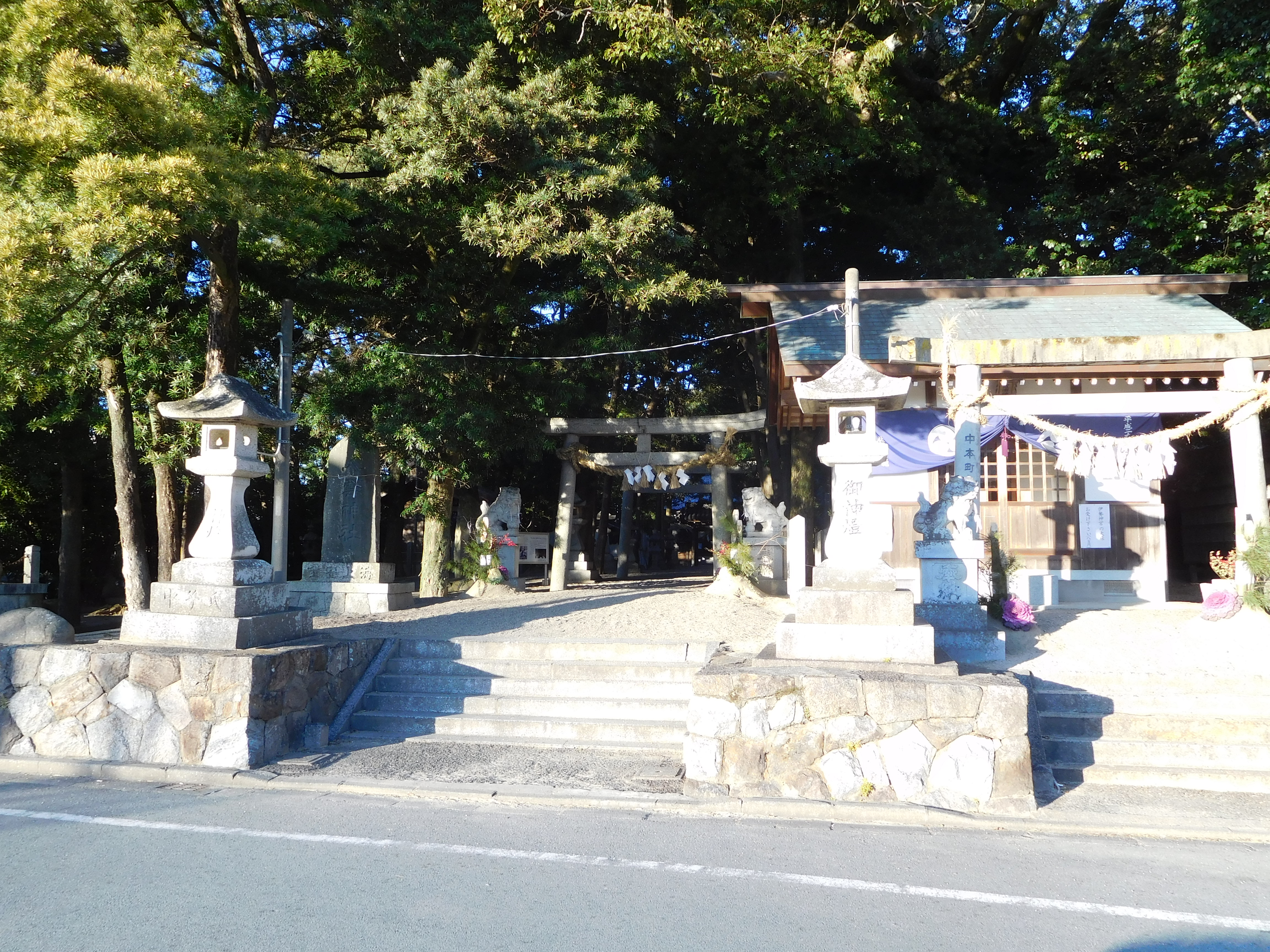 This is Yakumo shrine, which is located in Shiratsuka-cho, Tsu, Mie, Japan.